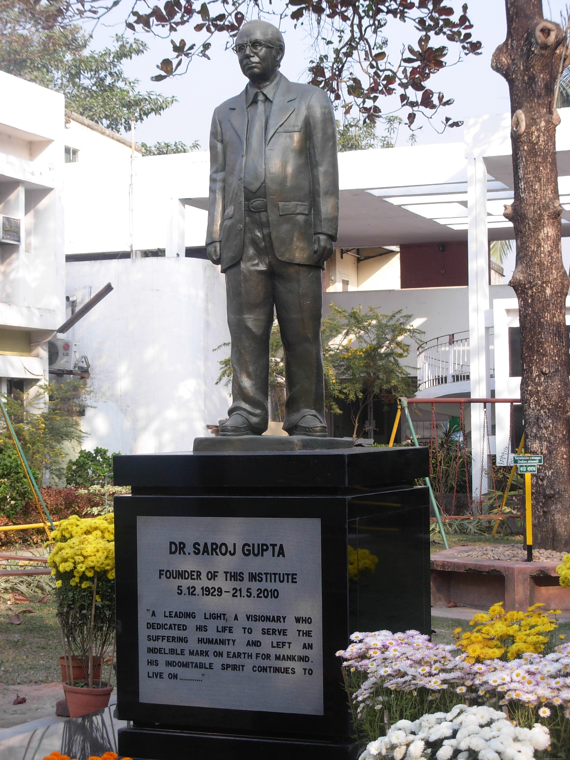 The statue of Dr. Saroj Gupta, the founder of SGCC&RI